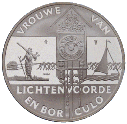 coin (2008) Queen Beatrix